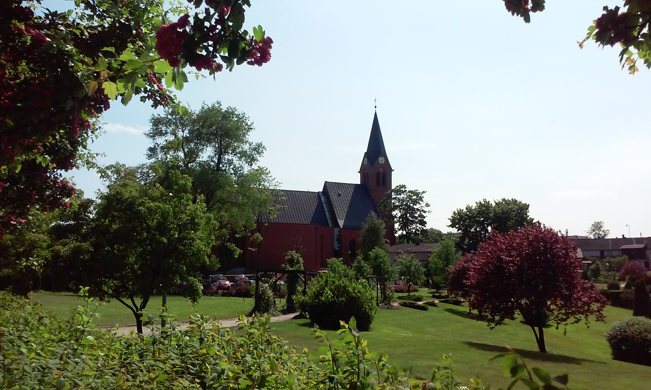 Sierakowice (Pomerania), Saint Martin church (new)